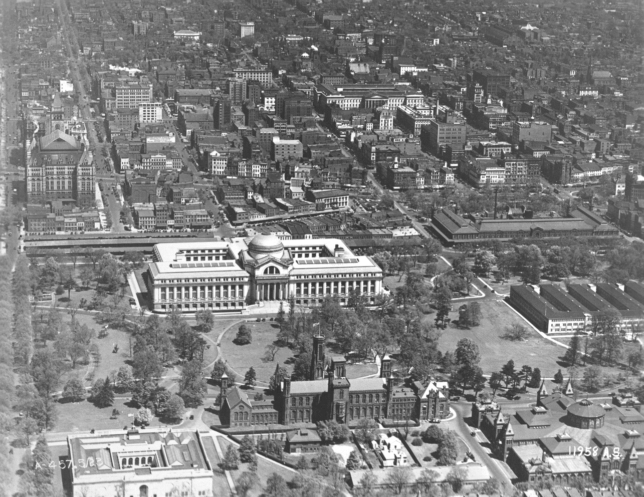 Original Caption: Aerial Photograph of Pennsylvania Avenue in Washington, DC, 05/23/1929 U.S. National Archives’ Local Identifier: 18-AA-151-46 From: "Airscapes" of American and Foreign Areas, compiled 1917 - 1964 Created By: War Department. Army Air Forces. (06/20/1941 - 09/26/1947) Production Date: 05/23/1929 Scope and Content: This photograph was taken by the Army Air Corps stationed at Bolling Field. The photograph includes the Smithsonian Institution Building, the Arts and Industries Building, the U.S. National Museum, and Center Market. Persistent URL: Repository: National Archives at College Park - Still Pictures (RD-DC-S) For information about ordering reproductions of photographs held by the Still Picture Unit, visit: Reproductions may be ordered via an independent vendor. NARA maintains a list of vendors at